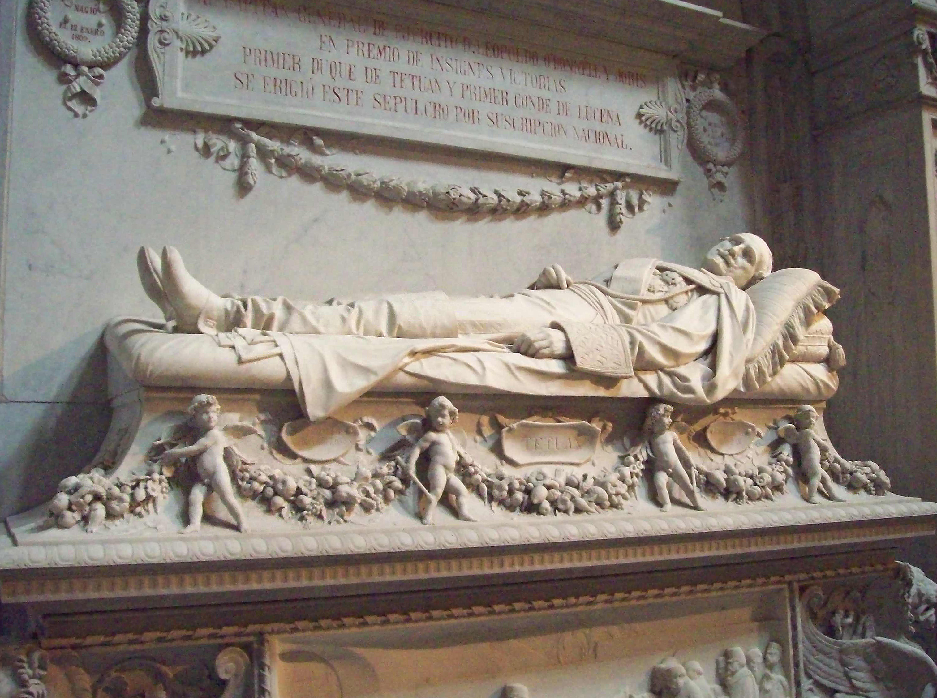 Partial view of the Mausoleum of Leopoldo O'Donnell (1809–1867), at St. Barbara's Church in Madrid (Spain). It was sculpted in Carrara marble by Jerónimo Suñol in 1870.